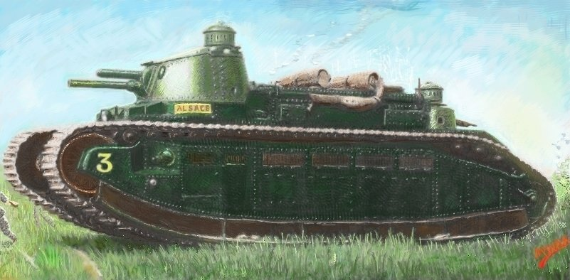 painting made by me personally